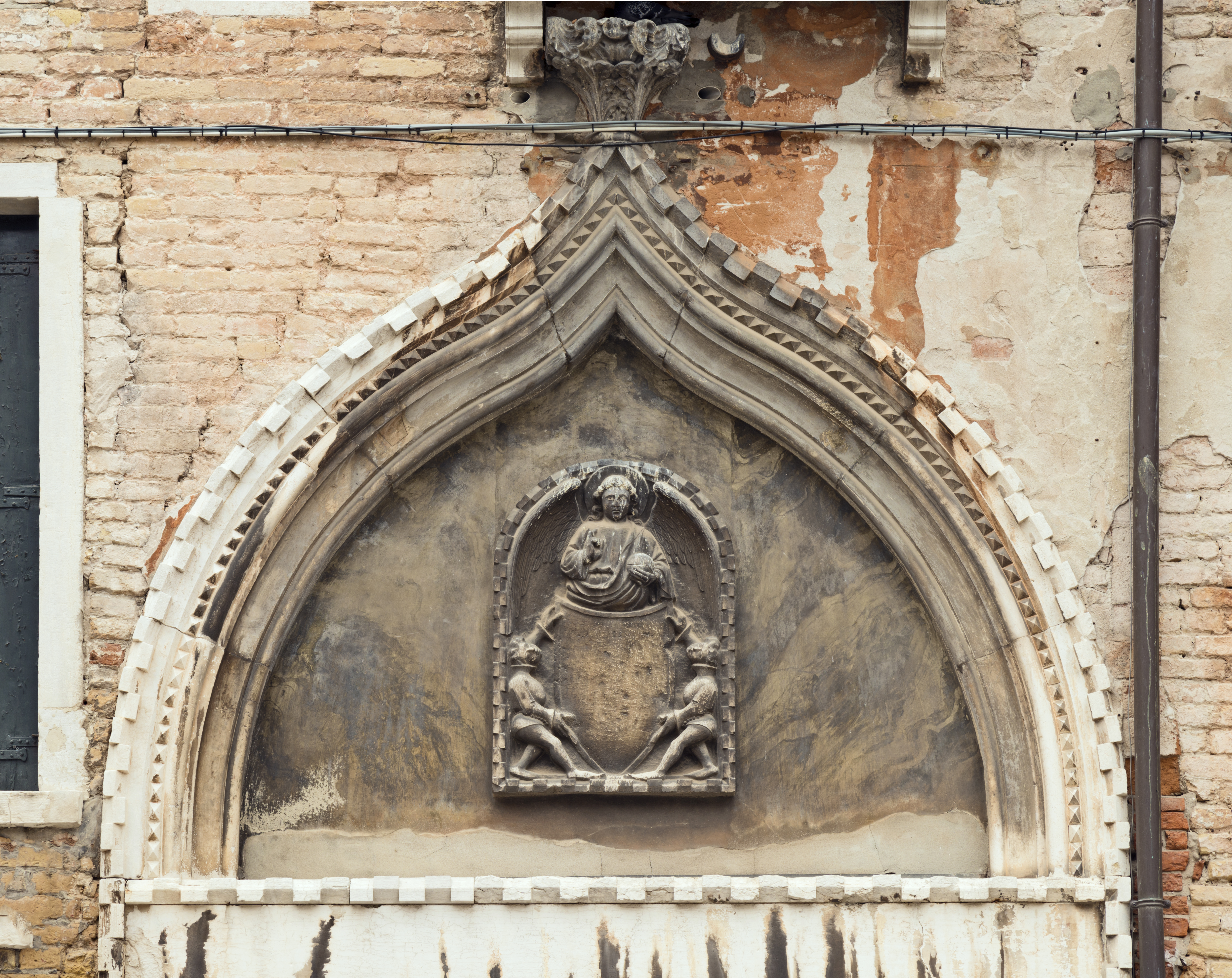 Palazzo Molin on campo San Maurizio, San Marco, Venice. The family coat of arms above the door